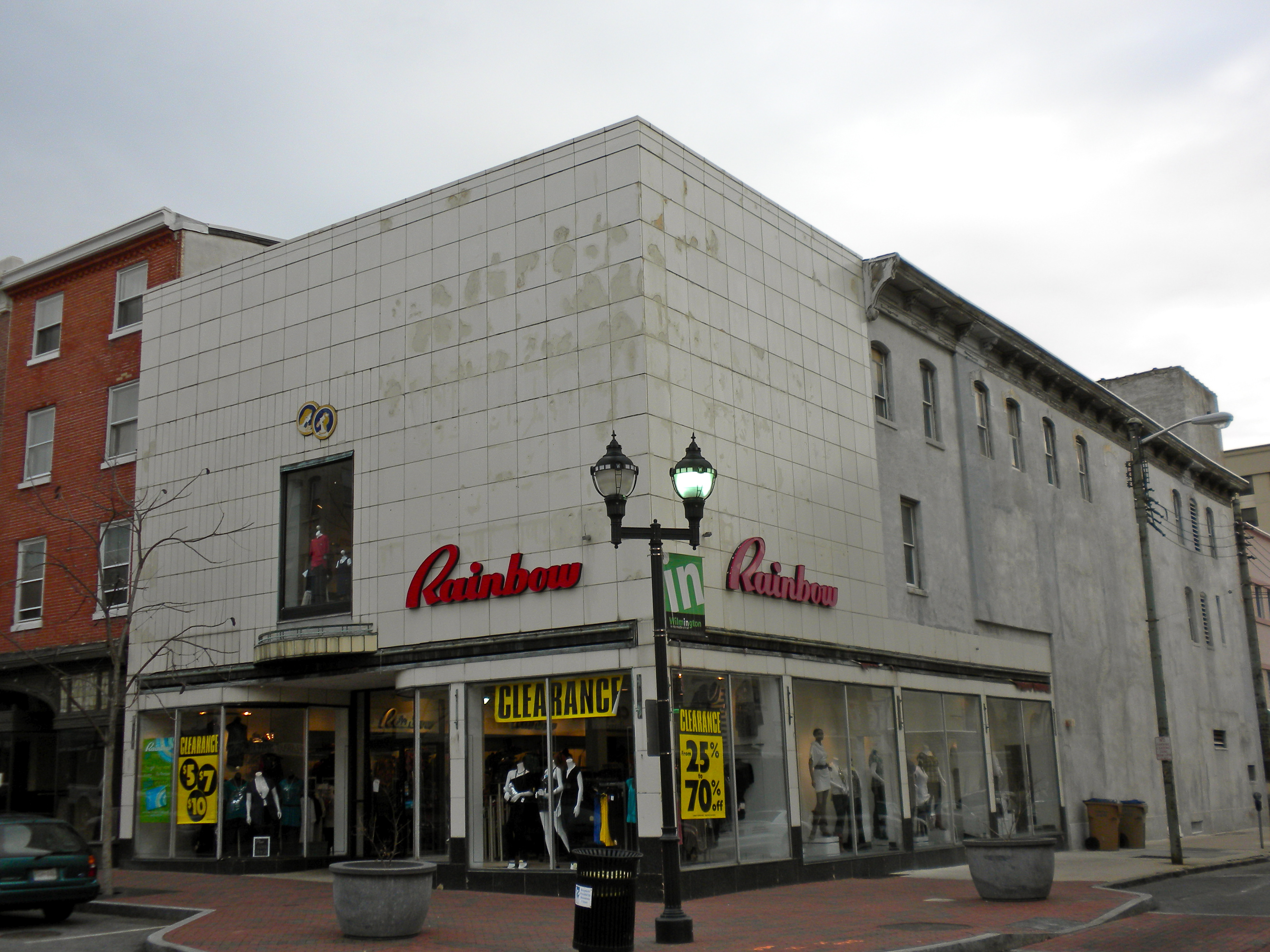 Max Keil Building, on the NRHP since January 30, 1985, at 700 N. Market St. in Wilmington, Delaware. Note building of same name at 712 Market, also on NRHP at "Max Keil Building 712 Market.JPG". In between these buildings is Braunstein Building at 704-706 North Market which is also on the NRHP